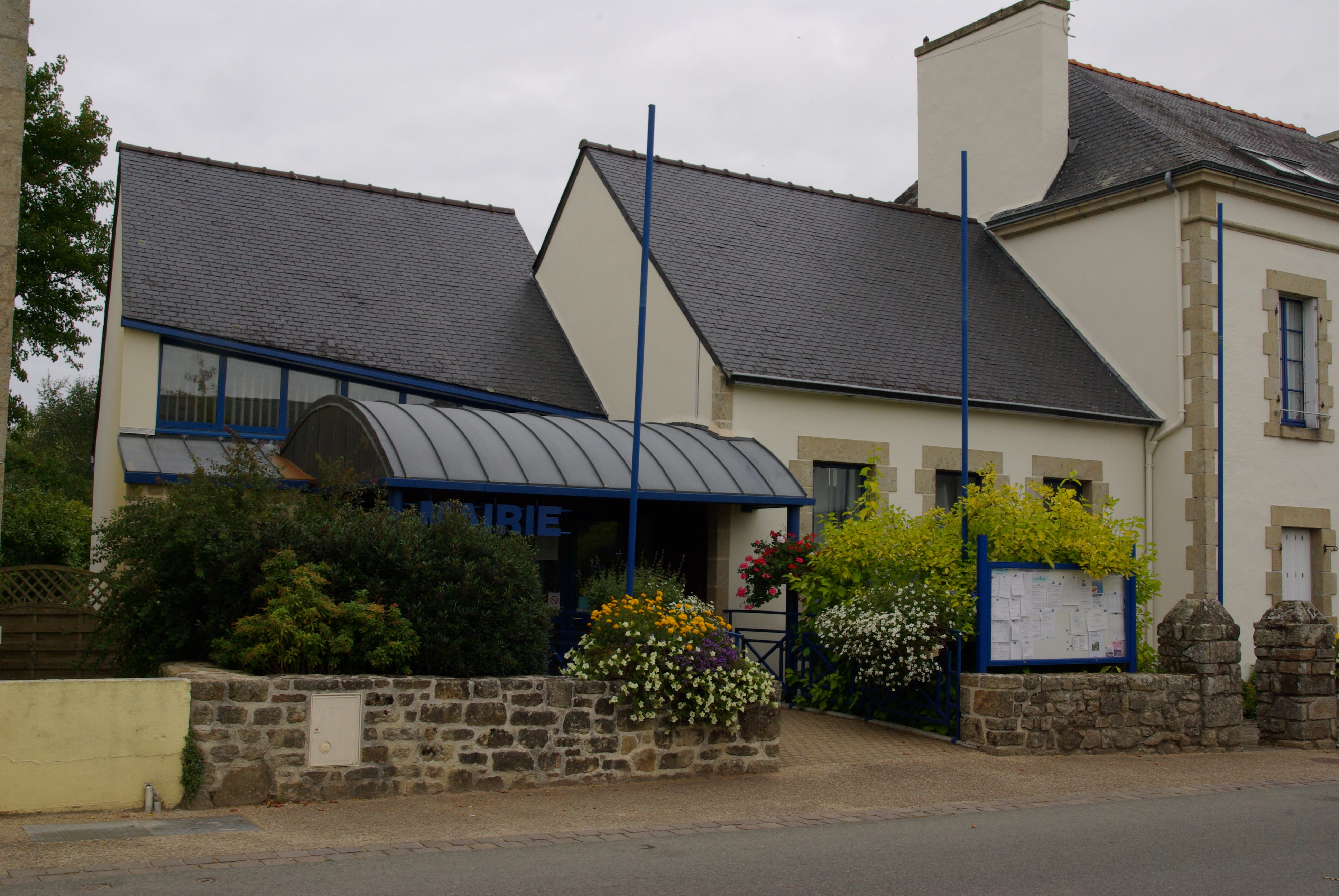 Le Juch, the City Hall